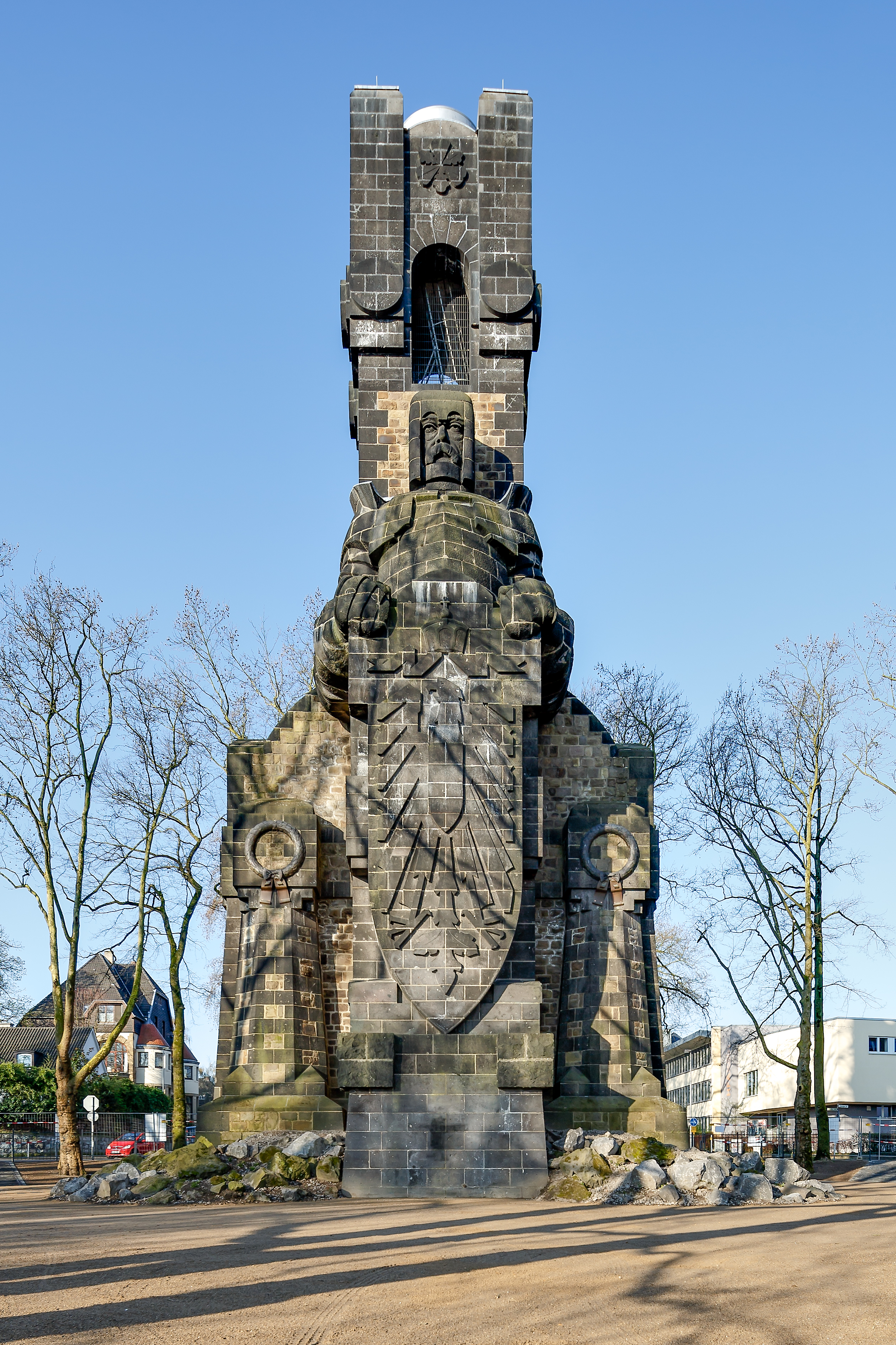 Cologne, Germany: Bismarck Tower after refurbishment in 2016